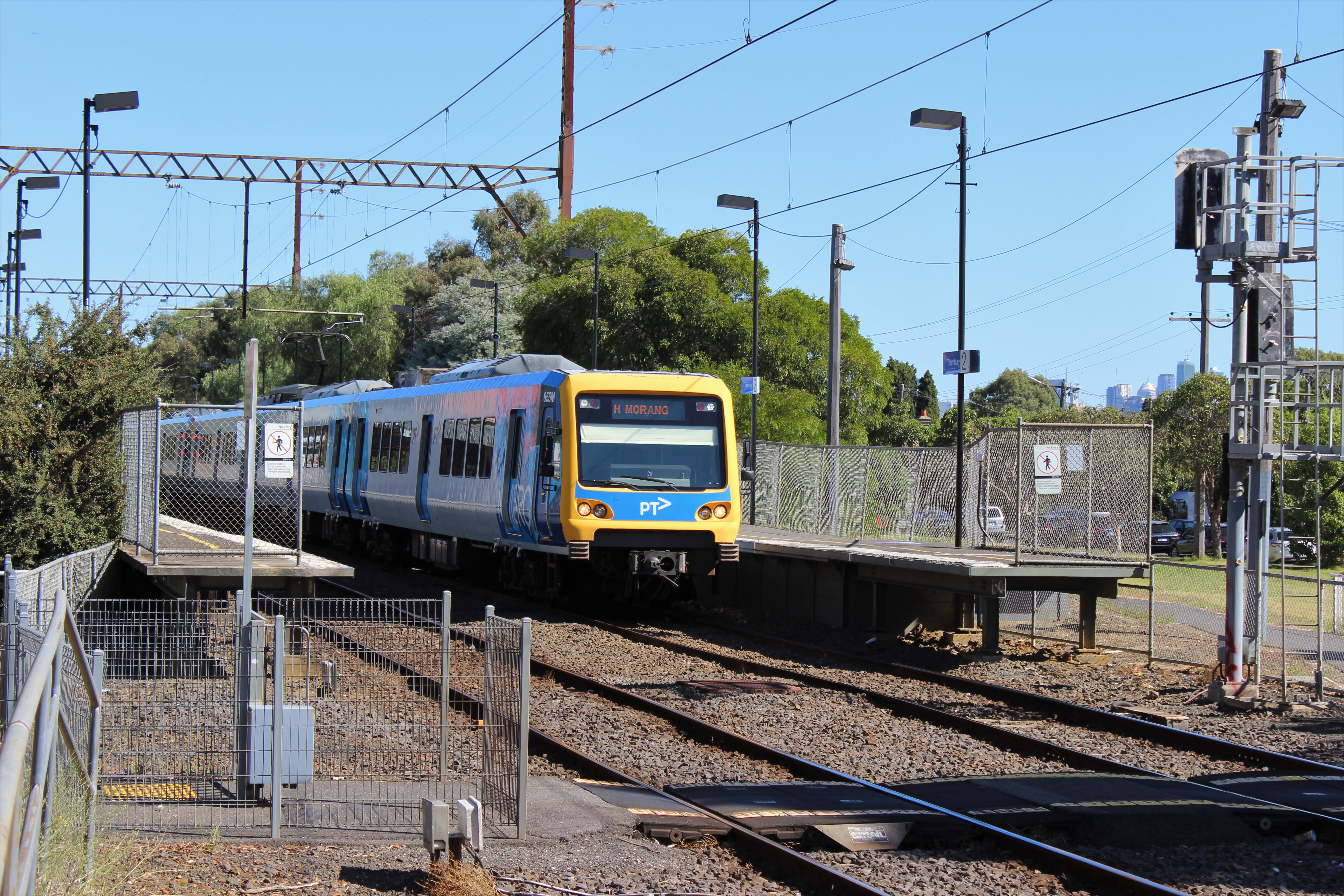 South Morang-bound Xtrapolis train at Thornbury Station